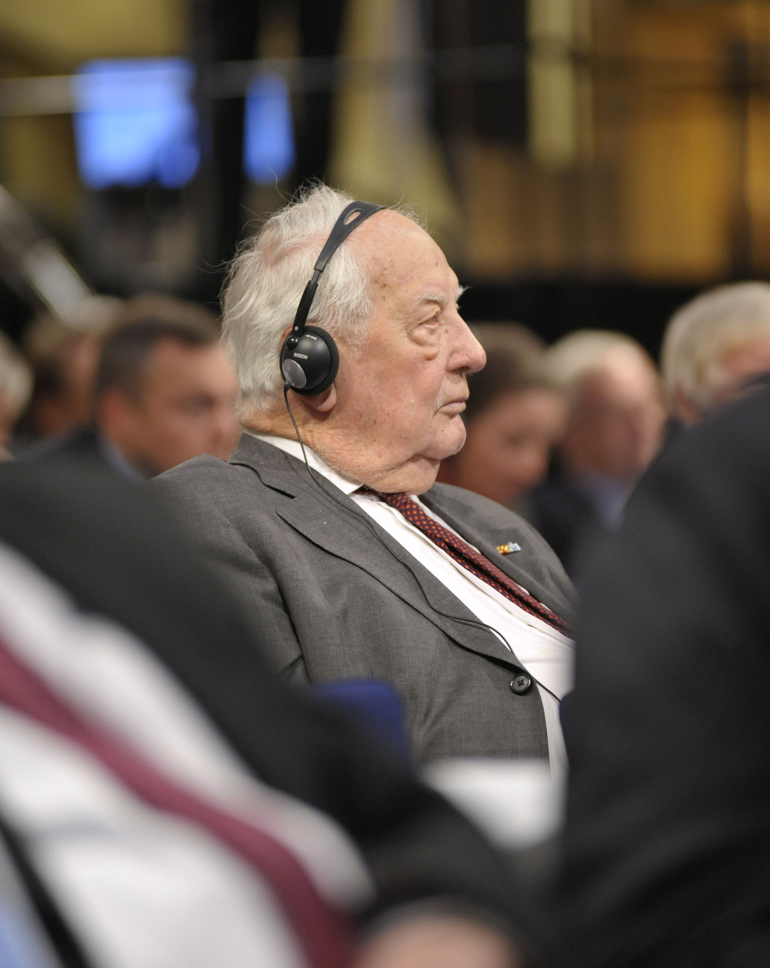 48th Munich Security Conference 2012: Ewald-Heinrich von Kleist-Schmenzin, Publisher and Founder of the Wehrkunde Conference, Munich.